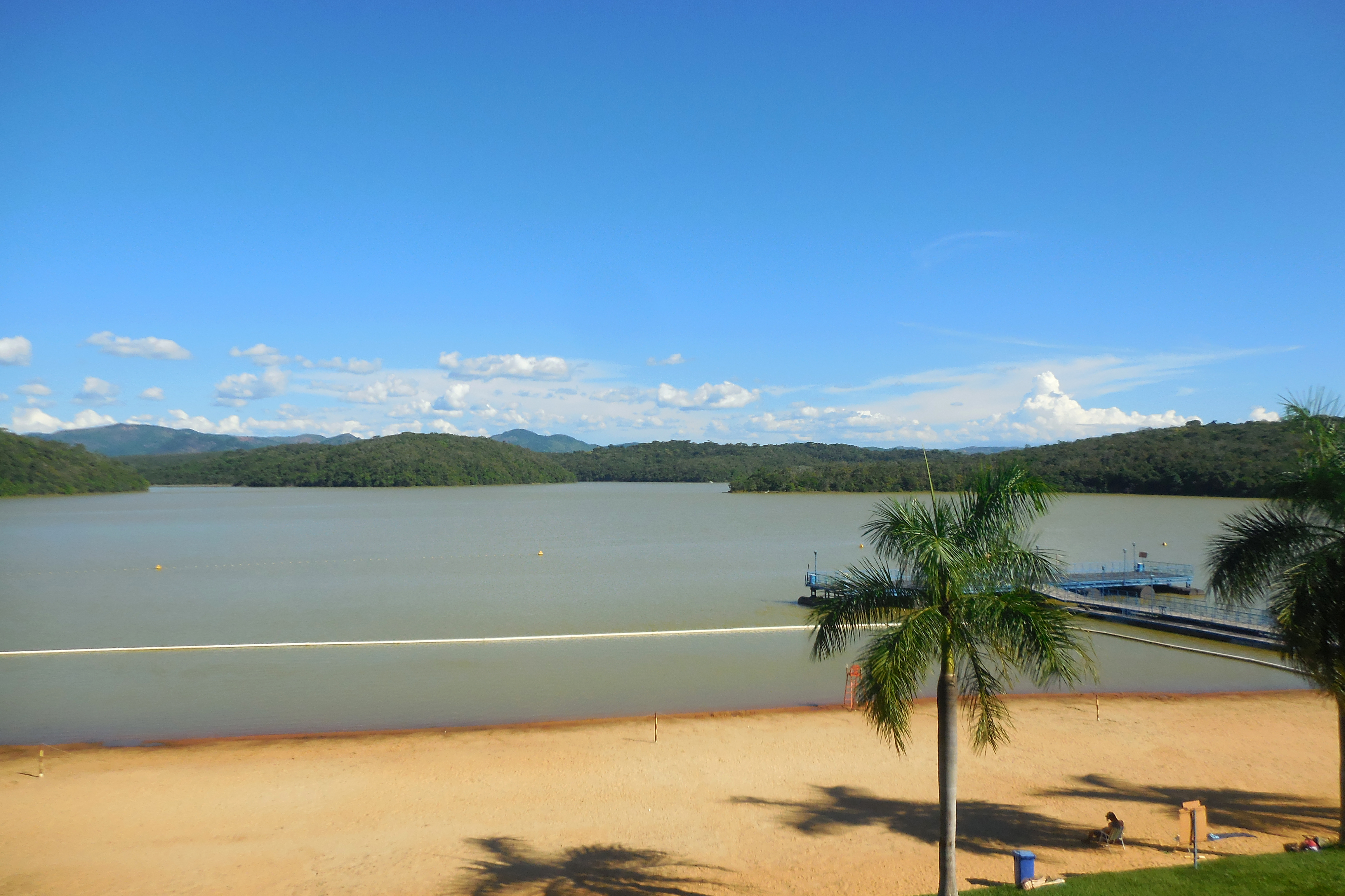 Partial view of the Silvana Lake, in Caratinga, Minas Gerais, Brazil.